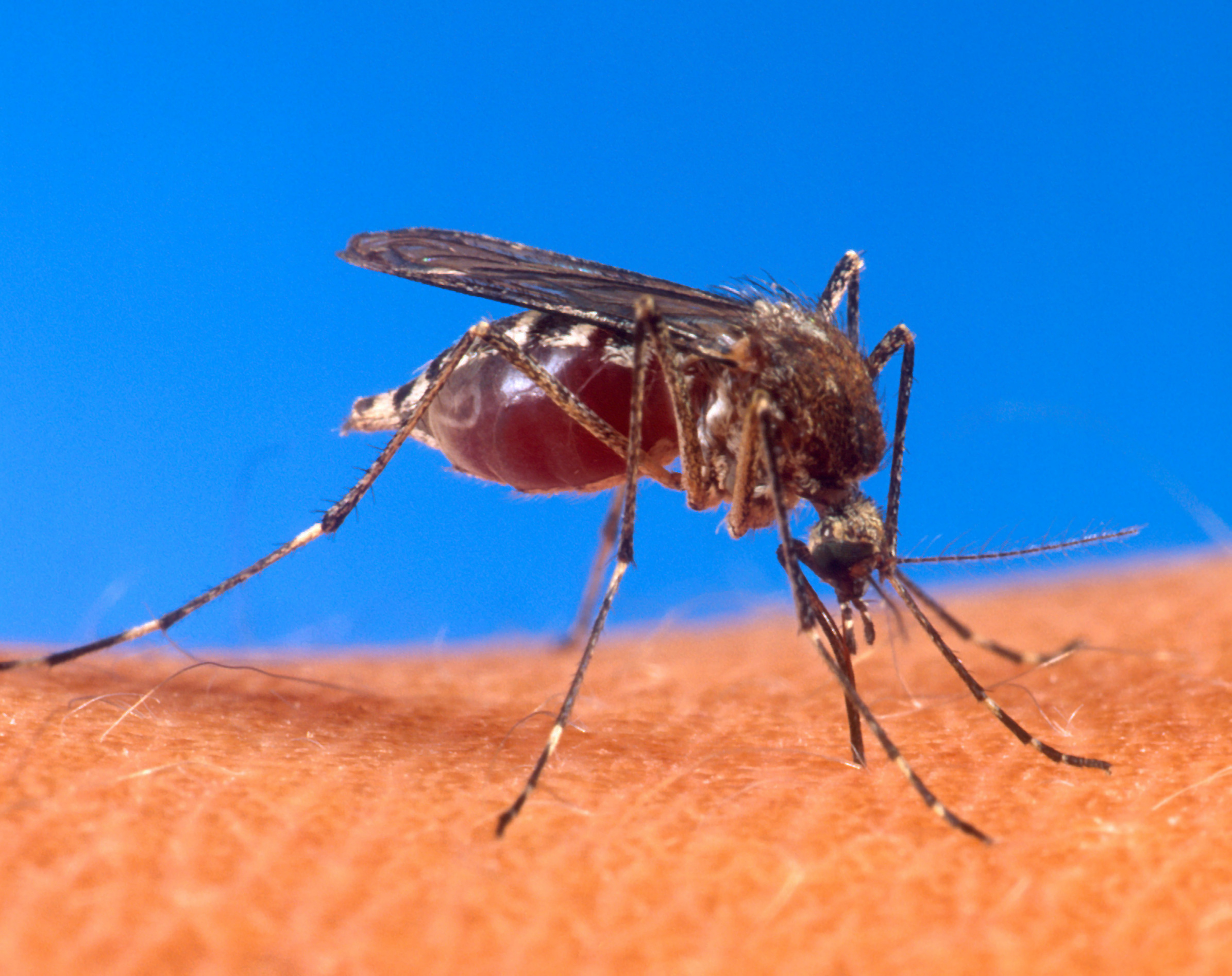 Ochlerotatus sp. mosquito biting a human.